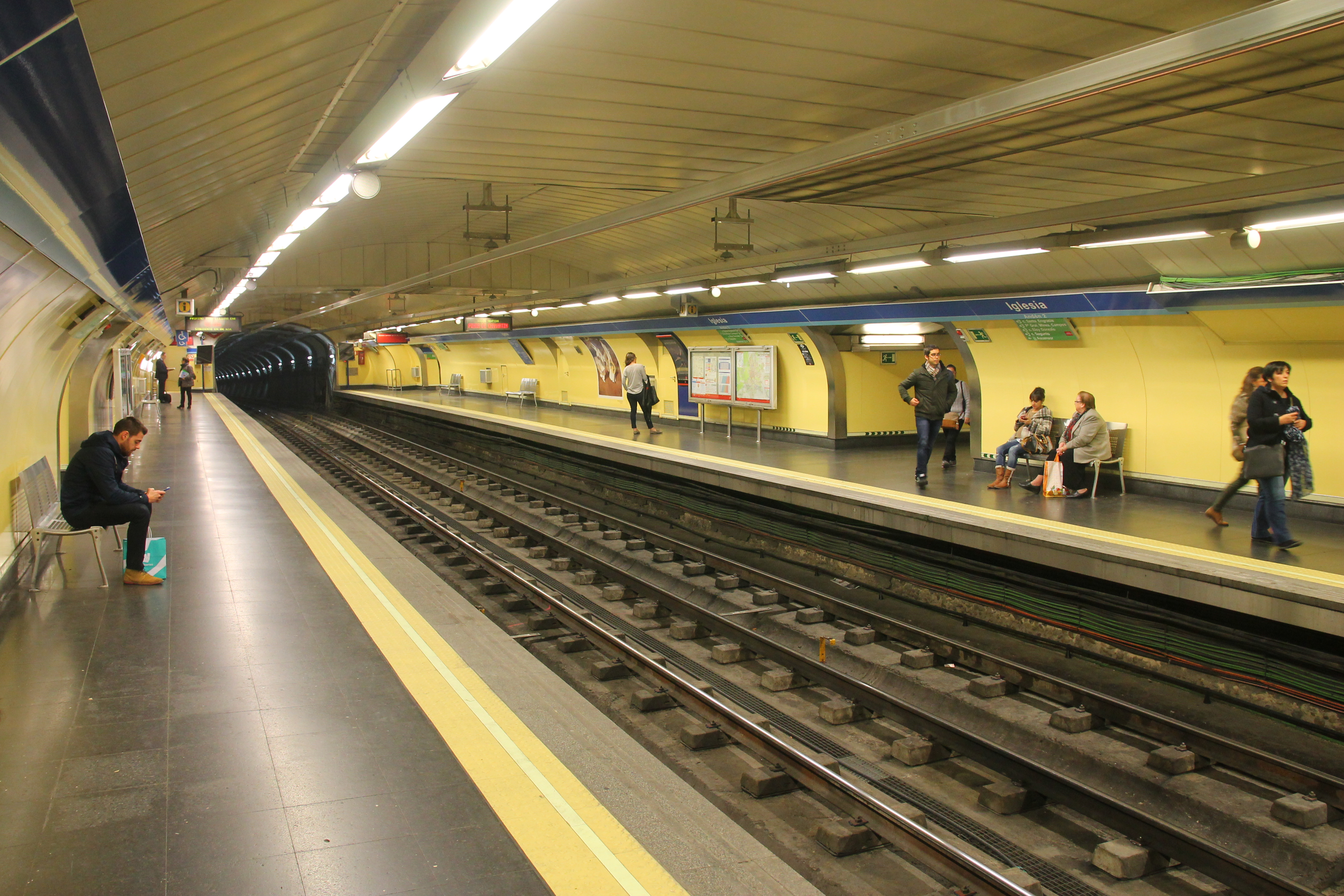 Estación de Iglesia